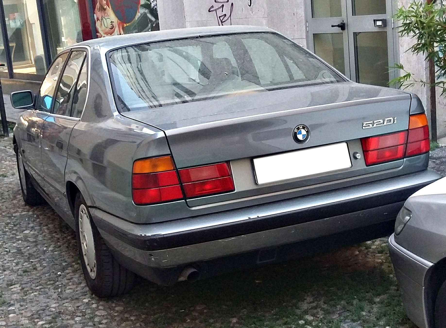 1988-1995 BMW 5 series E34